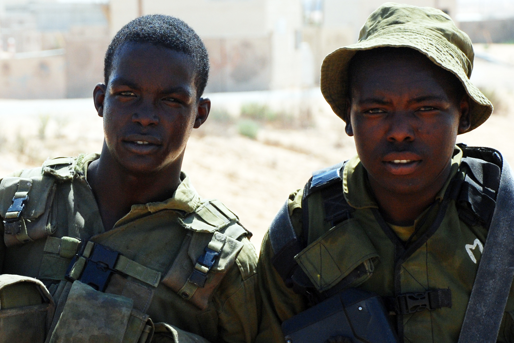 July 20, 2011 Two IDF soldiers take a break during a combat exercise in southern Israel. The soldiers serve in the Bedouin Desert Reconnaissance Battalion, an infantry battalion that is largely composed of Bedouin Arabs. The battalion operates along the Israel-Egypt and Israel-Gaza borders. According to data released this month by the IDF Education Corps, units such as the Bedouin Desert Reconnaissance Battalion have greatly benefited from an increase in minority recruitment over the past few years. Featured as photo of the day on July 26, 2011. Photography: Sgt. Benish Revivo, IDF Spokesperson's Unit